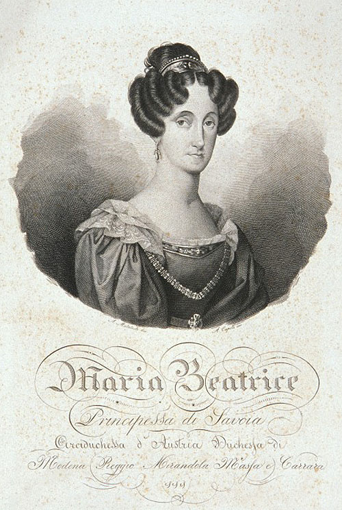 Lithography of Maria Beatrice of Savoy spouse of Francis IV, Duke of Modena, Reggio, Massa and Carrara